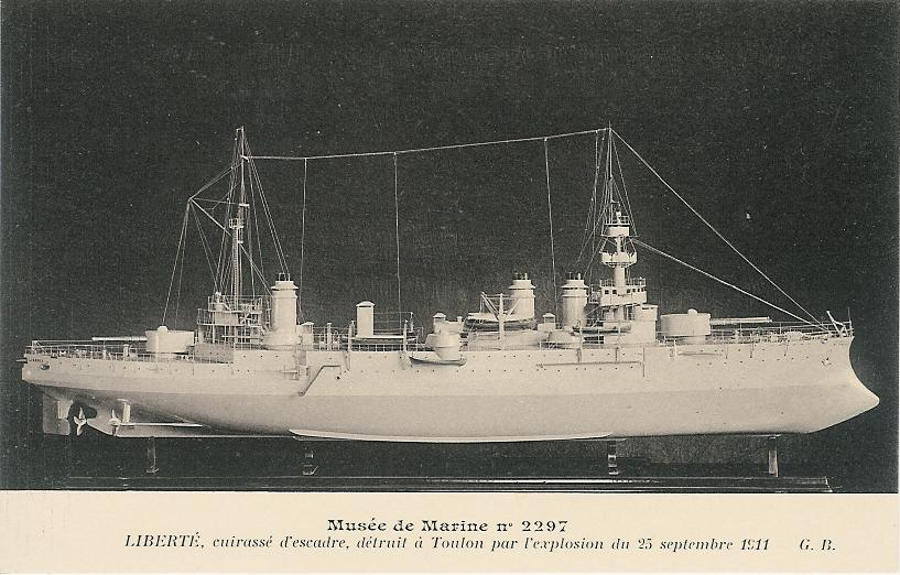 French battleship Liberté (1905)